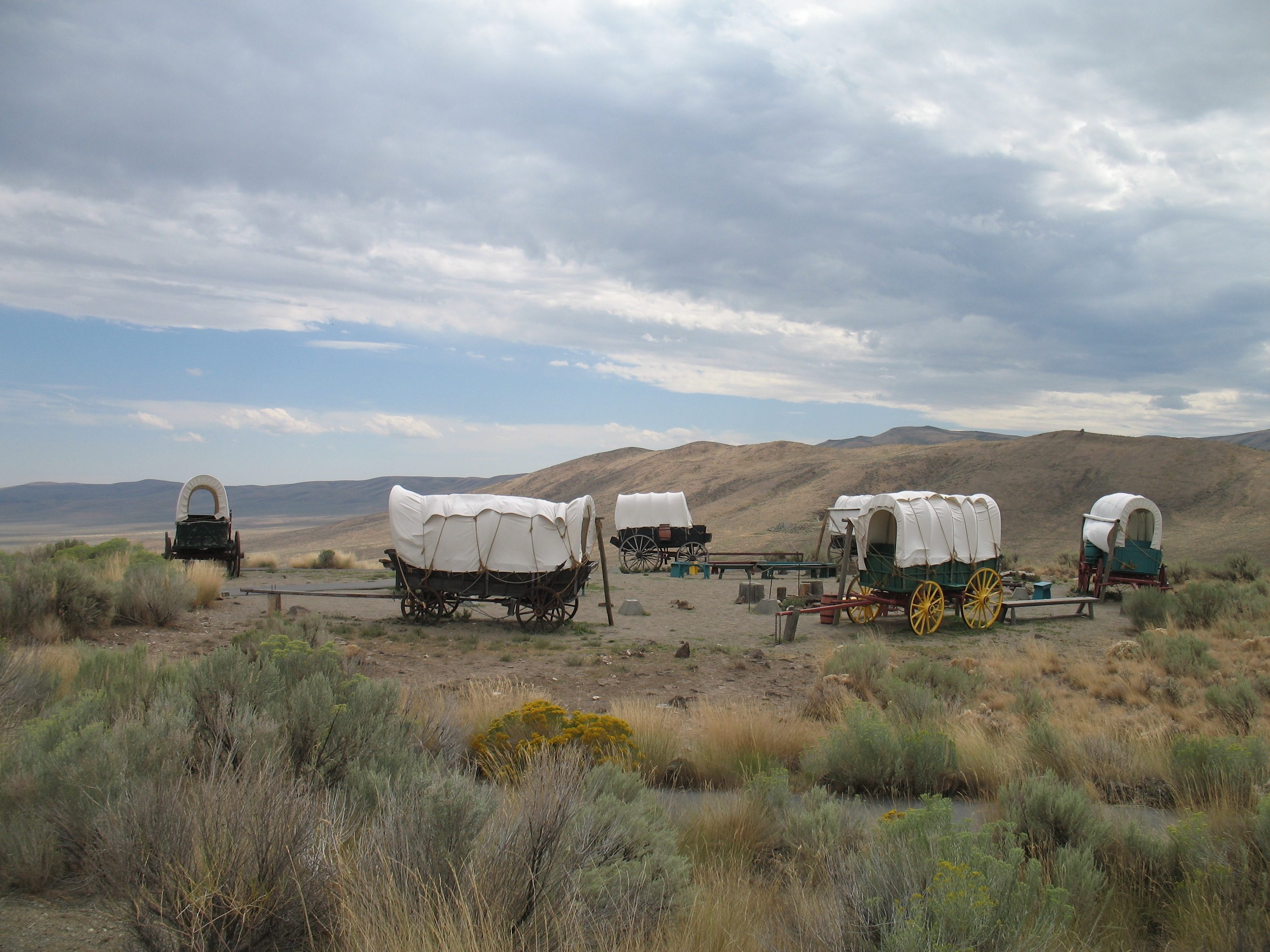 Circled wagons outside National Historic Oregon Trail Interpretive Center